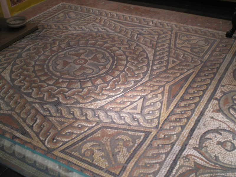 Roman mosaic found in London, Museum of London